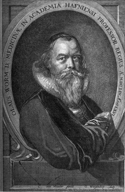 Subject : Ole Worm (1588-1654)